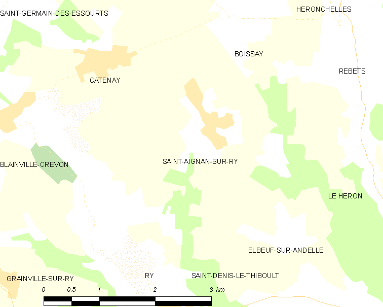 Map of French municipality Saint-Aignan-sur-Ry